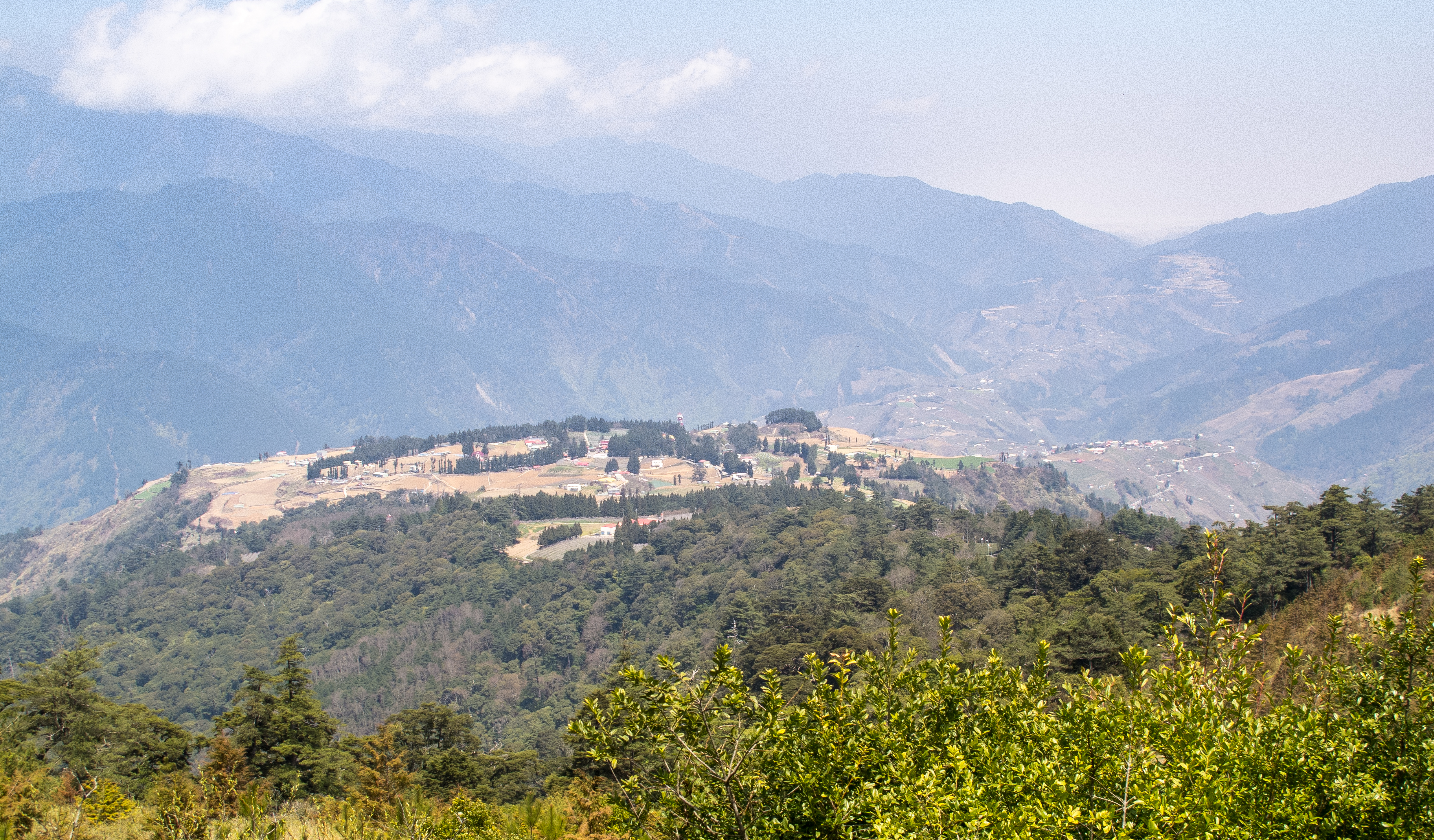 View over Fushoushan Farm.